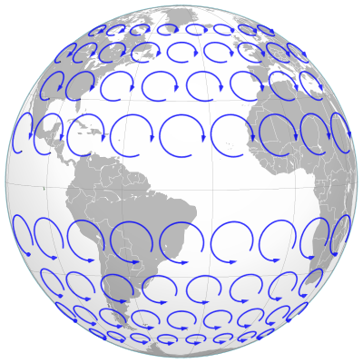 Inertial circles